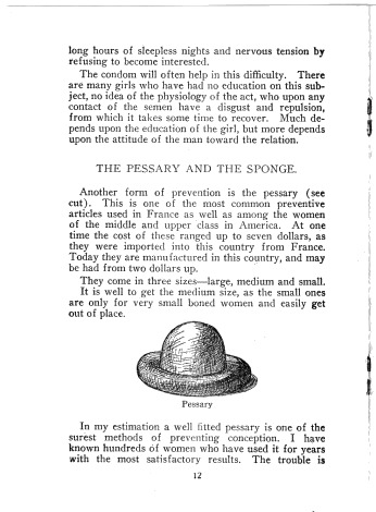 1917 Edition of Family Limitations page; by Margaret Sanger